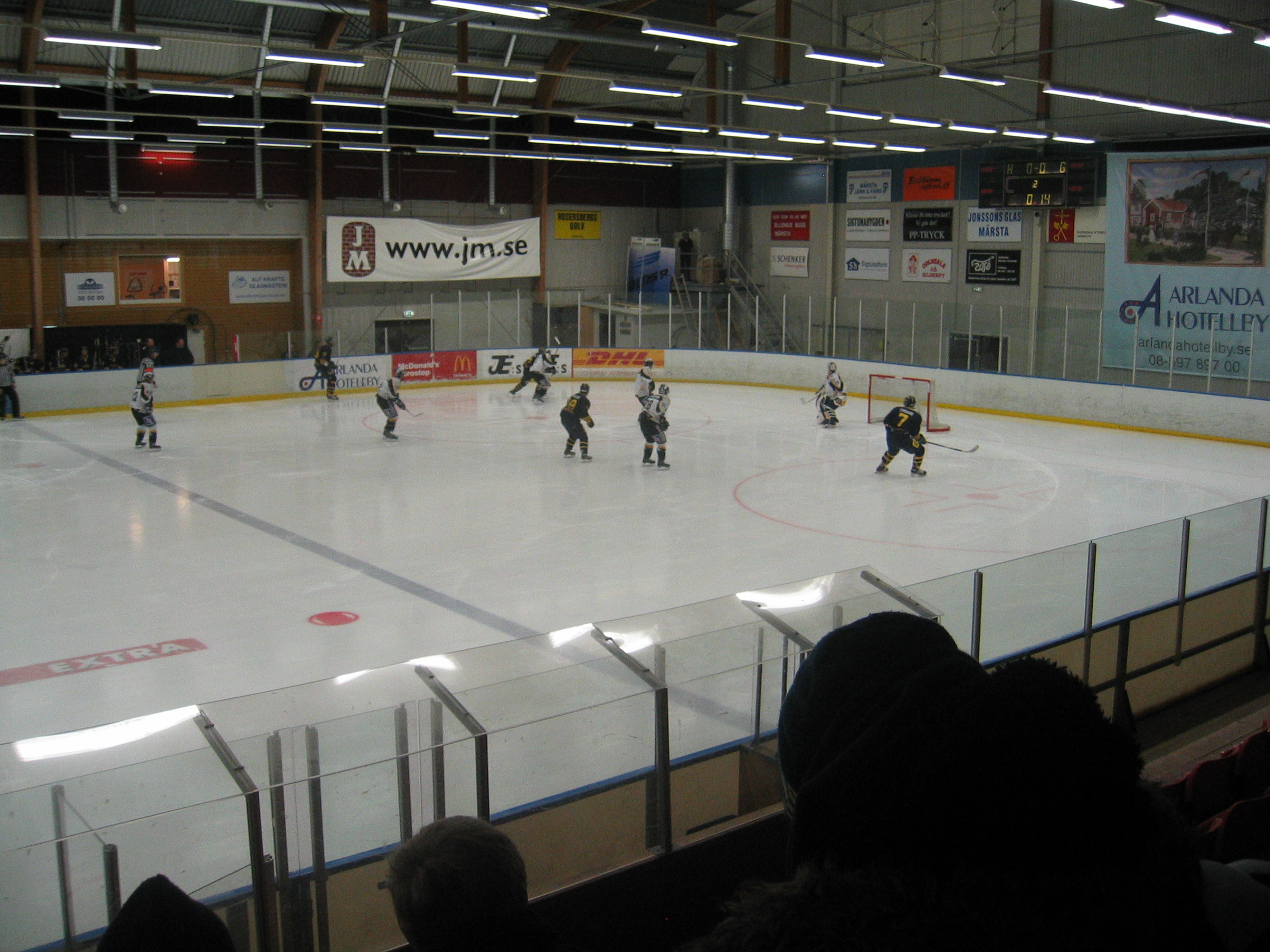 Pinbackshallen interior in 2008.